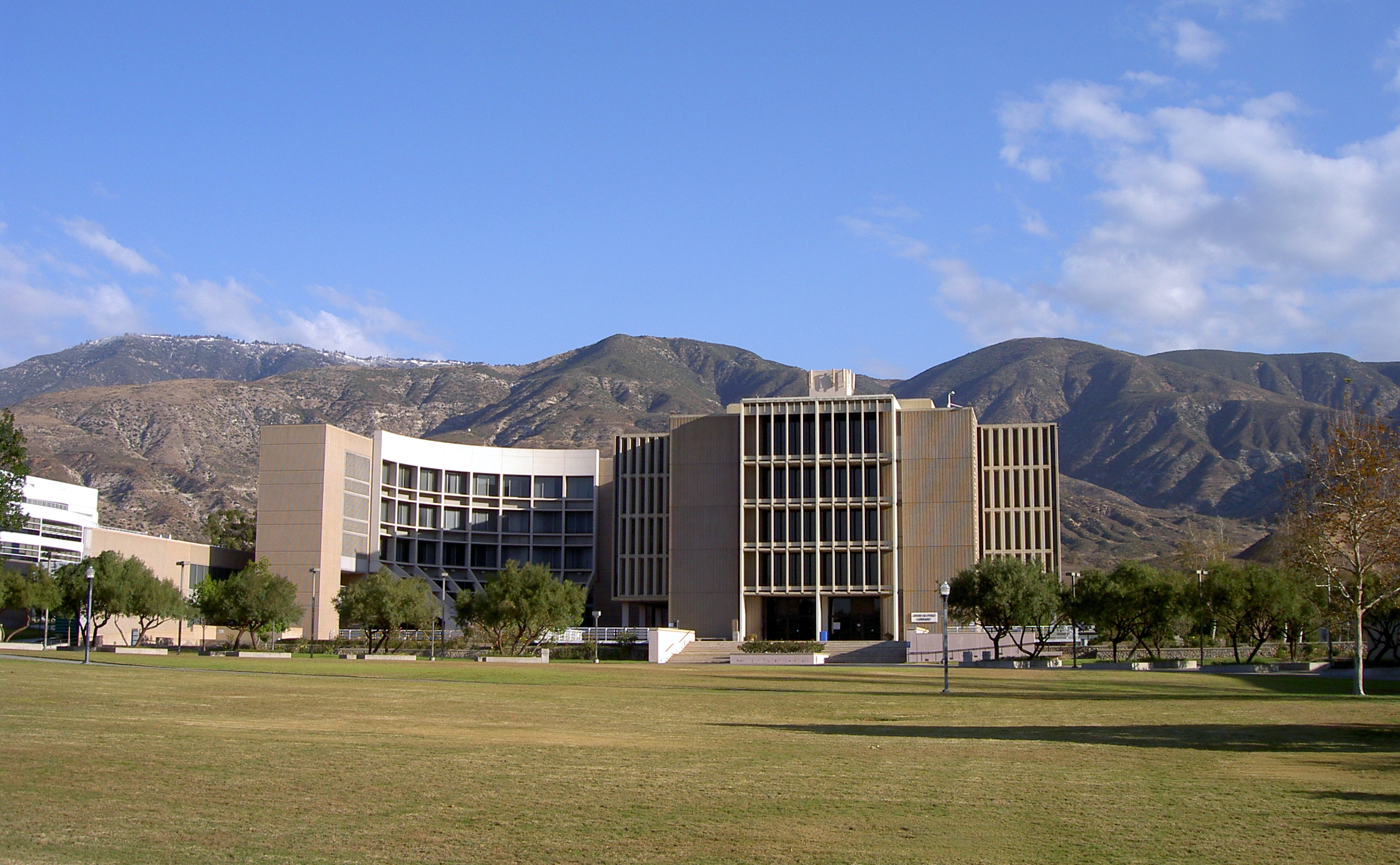 CSUSB